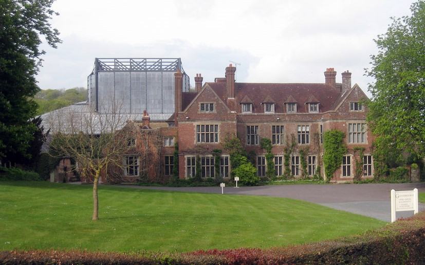 Glyndebourne Opera House, Glyndebourne, East Sussex, England